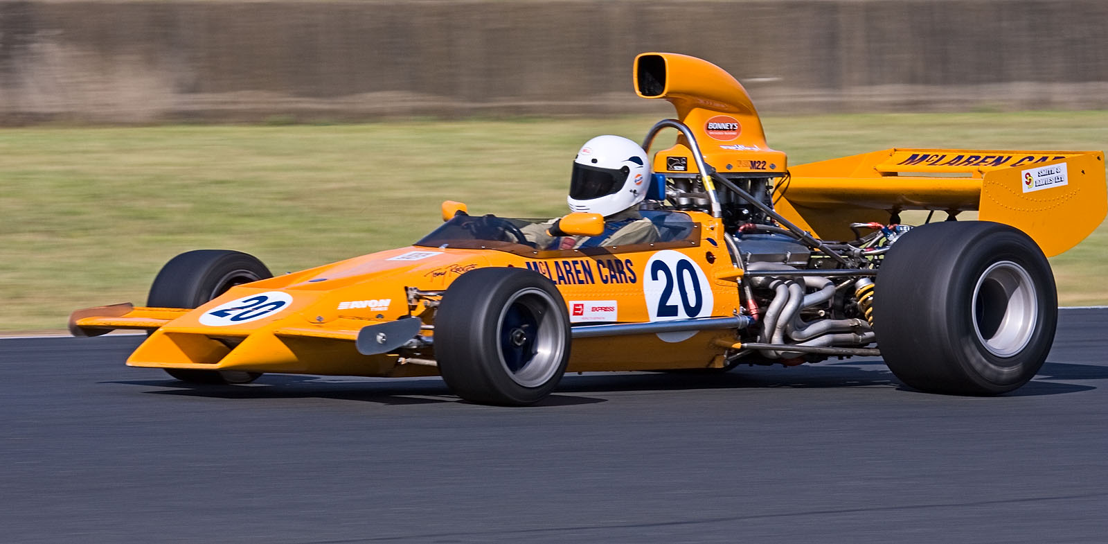 Tasman Revival 2008, Eastern Creek Australia IMG_5769